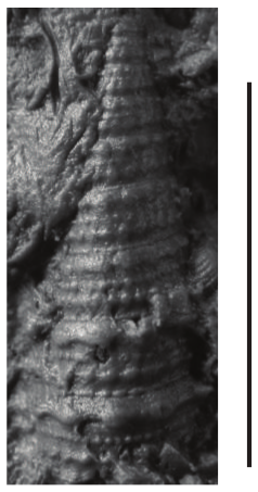 Black-and-white photo of abapertural view of paratype Potamides archiaci PG/K/Cr 48. Scale bar is 10 mm.